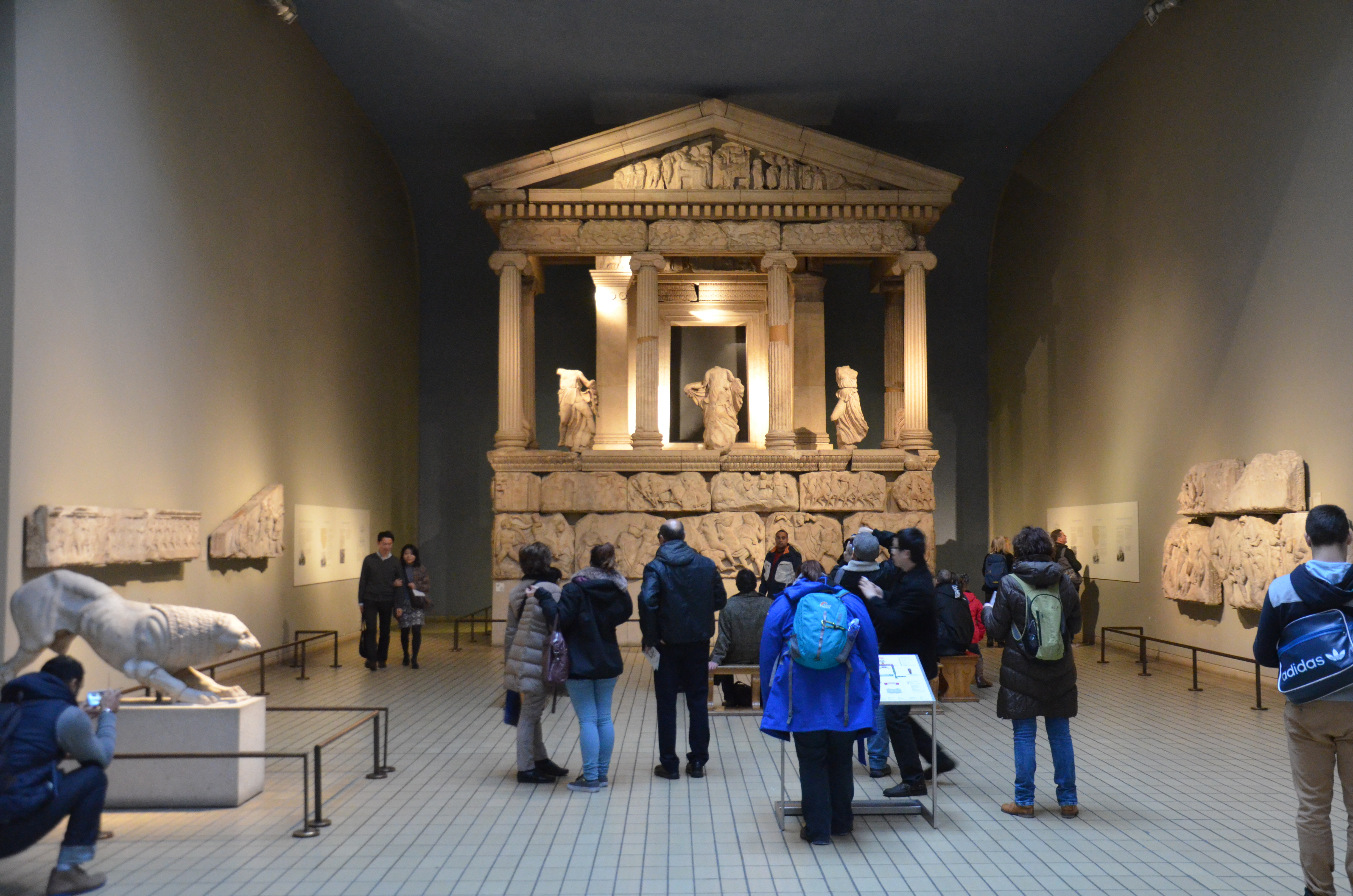 Nereid monument with visitors